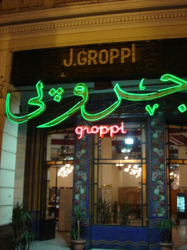 The famous Groppi's cafe and chocolatier in Midan Talaat Harb square, Talaat Harb Street, Downtown Cairo.